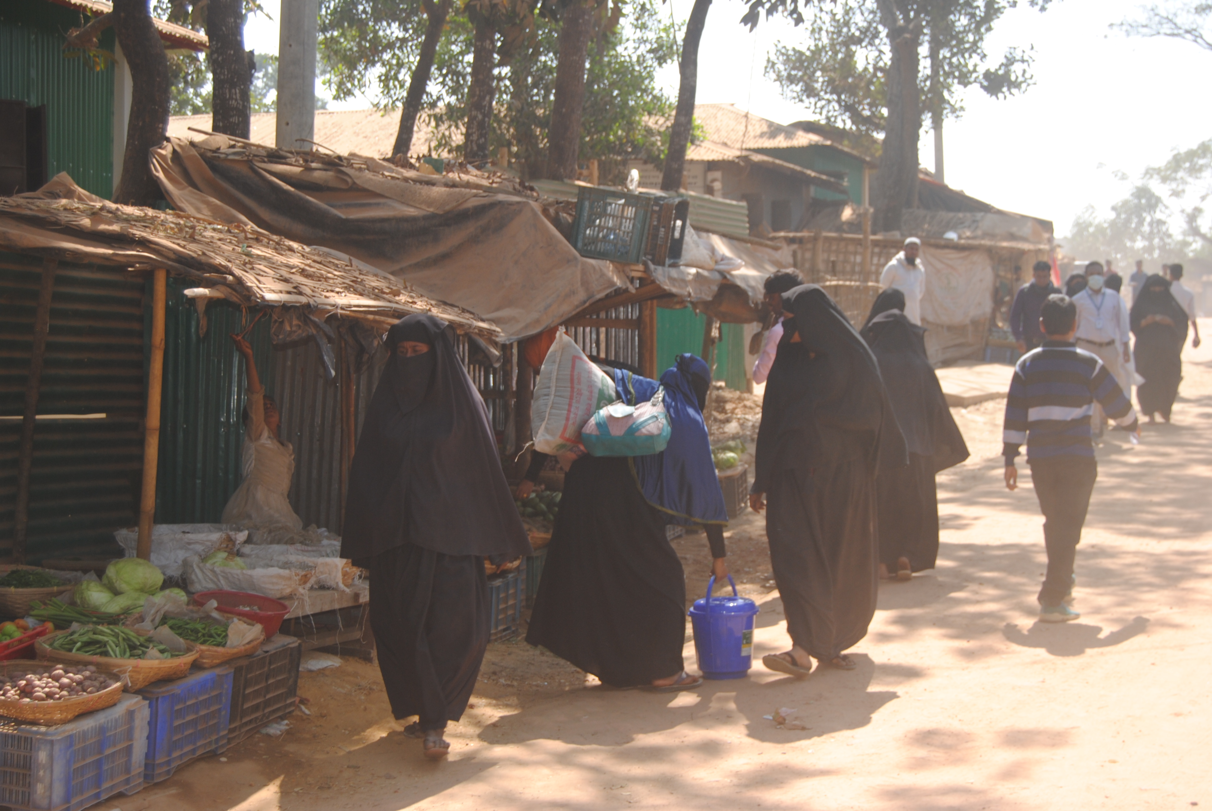 Rohingya Refugees Camp in Ukhia, Cox's Bazar, Bangladesh